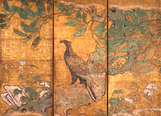 Hawk, Hawk Room, Hondo, Zuiganji, Matsushima, Miyagi, Japan